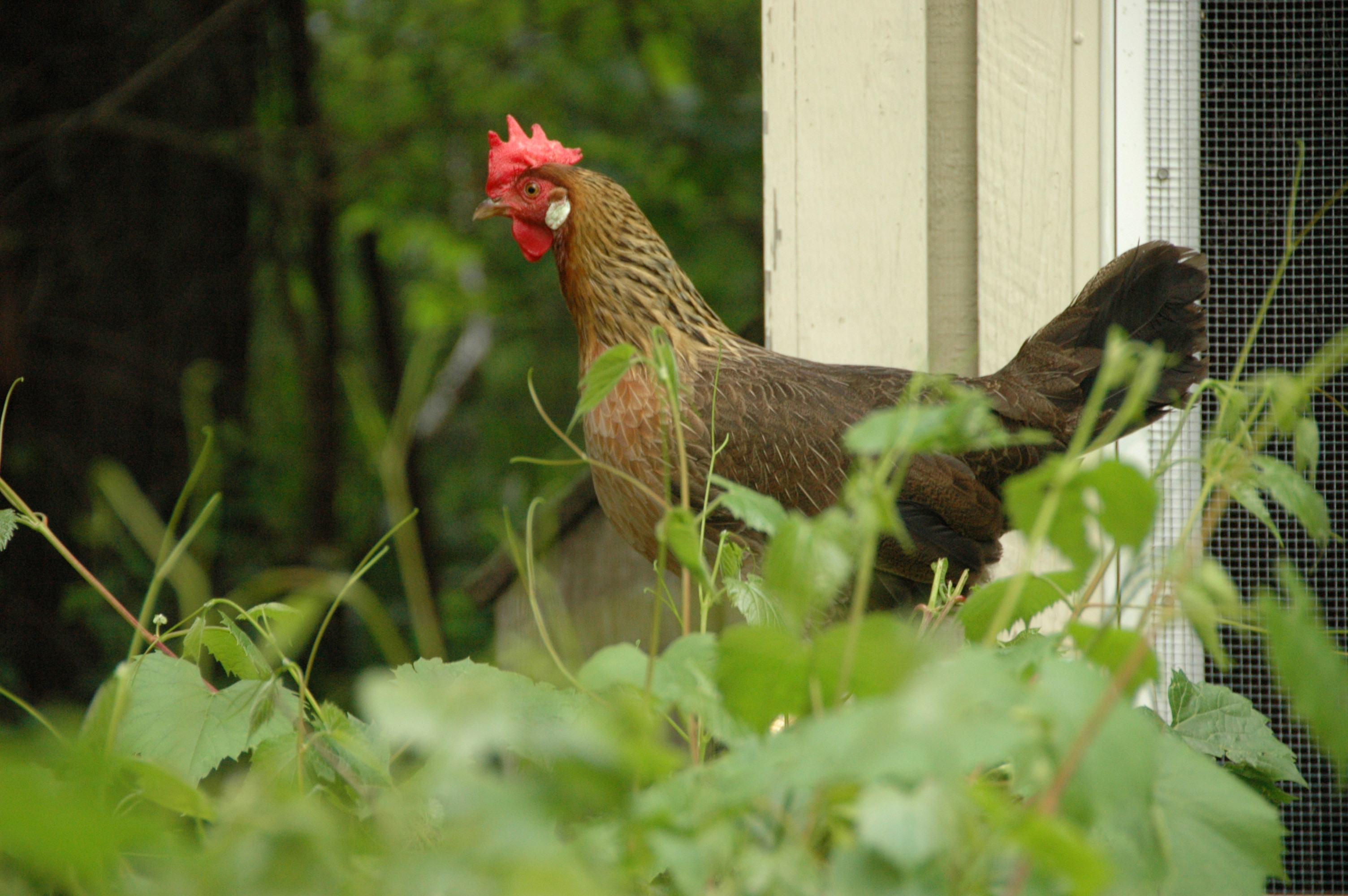 A Brown Leghorn hen. This is the only one of the three leghorns that survived a recent fox attack.